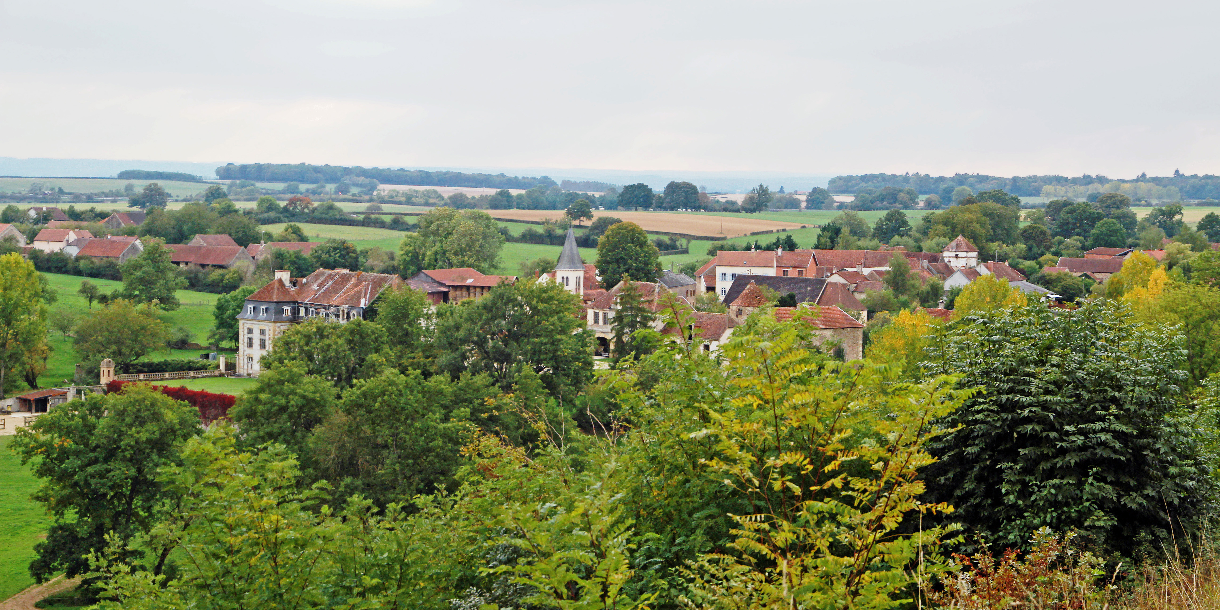 View of the village Flée (Côte-d'Or) from the road to Alleret